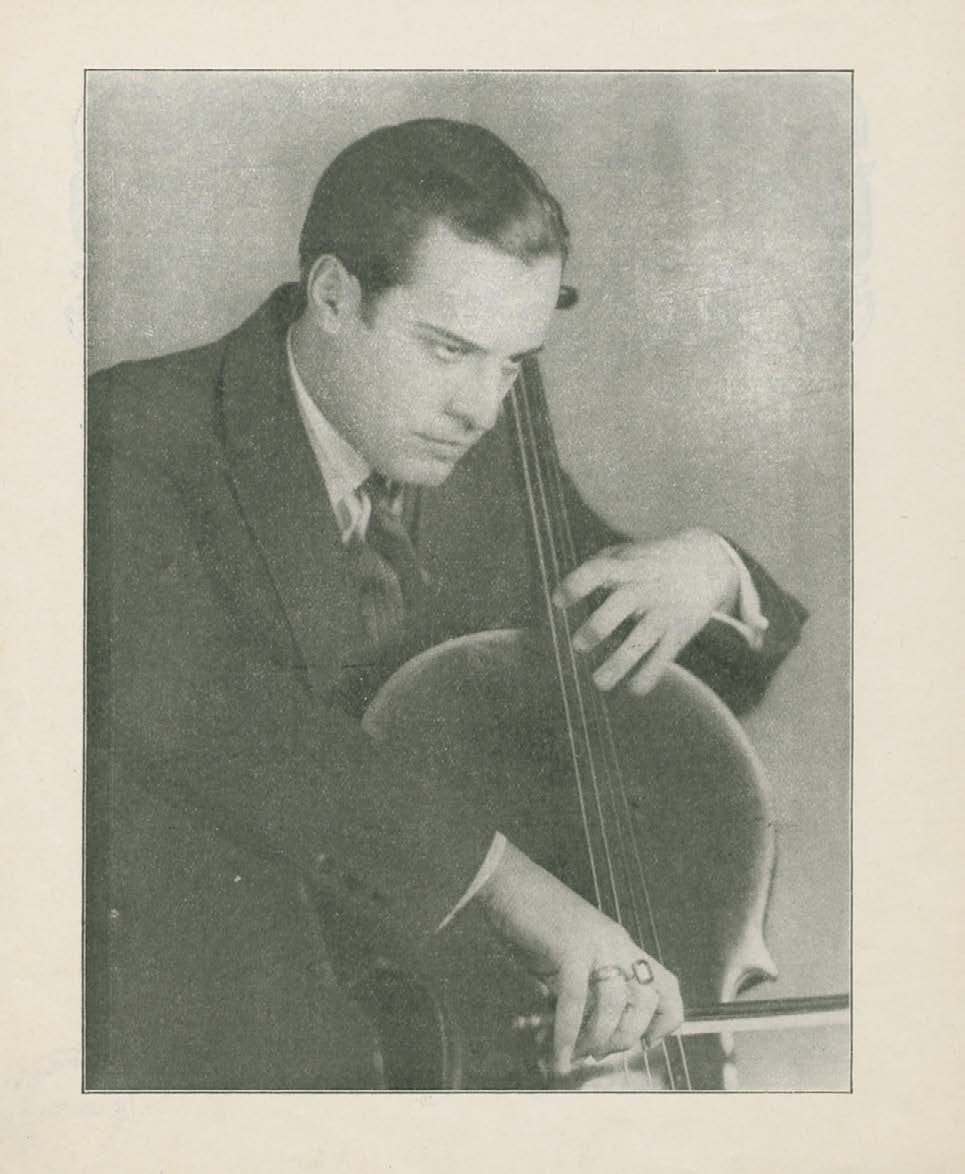 Photo of the Bulgarian cellist Slavko Popov - from an announcenment for a concert in Ljubljana in 1937